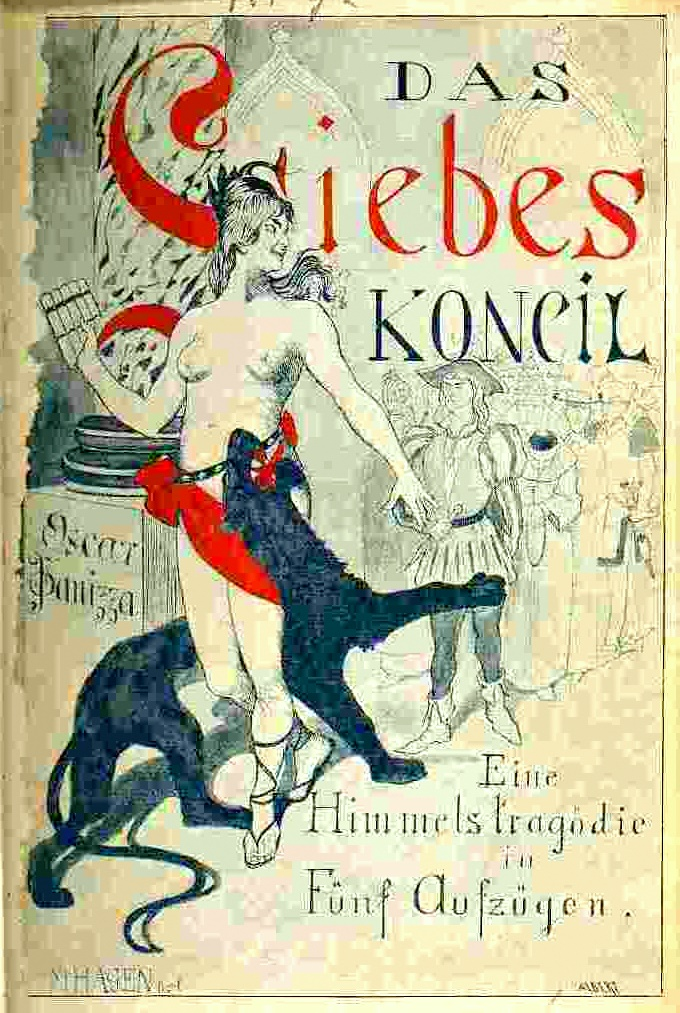 Cover illustration by Max Hagen for the book "Das Liebeskonzil" by Oskar Panizza